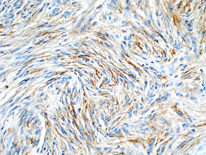 Histopathologic image of intracranial meningioma. The same case as shown in a file "Meningioma_(1)_transitional_type.jpg". Epithelial membrane antigen (EMA) immunostain.